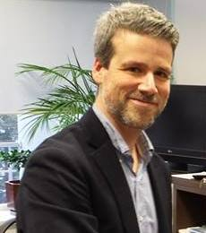 Fernando Peña with Valentin Popa after the signing of an international agreement with Universidade da Coruña